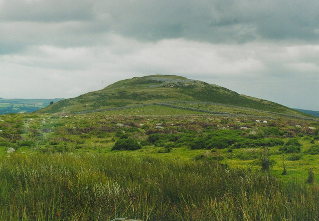 Pen-y-Gaer Hill fort above Llanbedr y Cennin with magnificent views over the Conwy Valley.